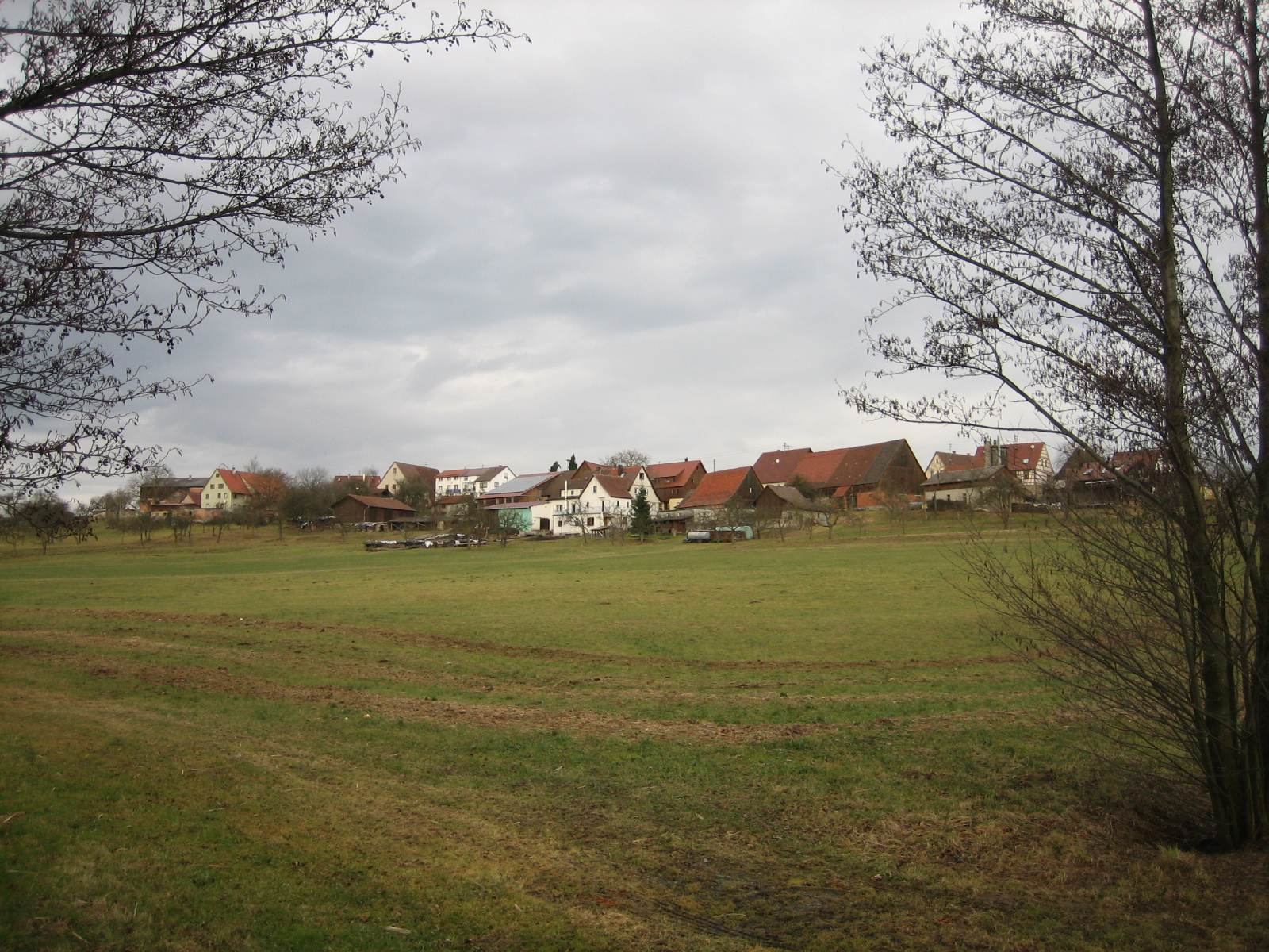 Village Siebenknie, part of Murrhardt.